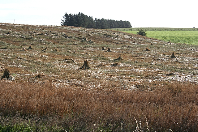 Ruined Crop When I first glimpsed this field I thought that it had been cut and stacked into stooks. On looking at it properly I realised that this is the worst case of rain damage to a crop that I have ever seen.